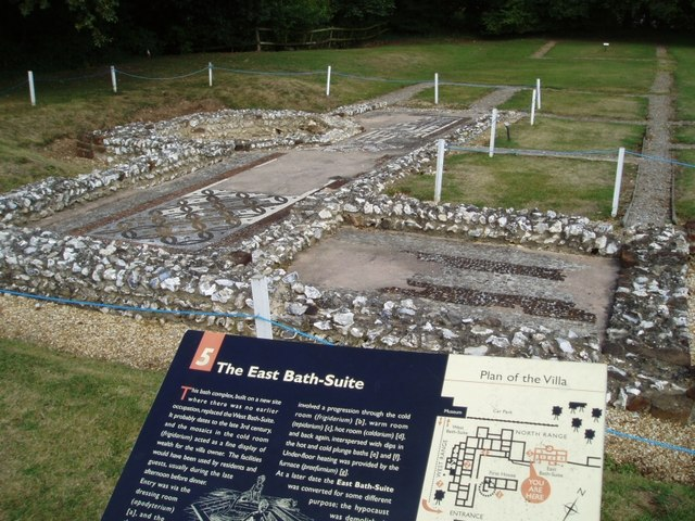 Roman Villa at Rockbourne. Only discovered in 1942 and with the digging taking place from 1956 to 1974, this was the labour of love of local amateur archaeologist A T Morley Hewitt